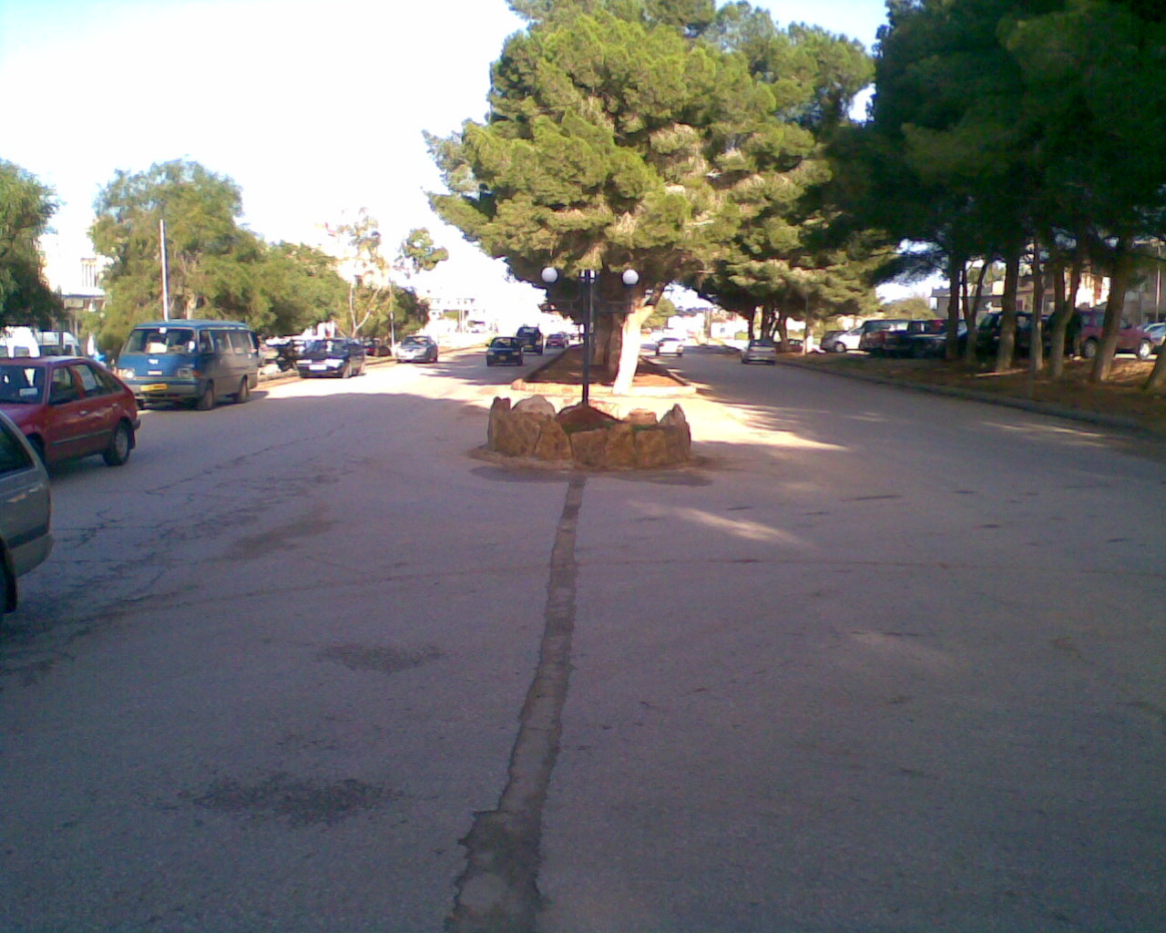 Modern town of Shahhat, on the place of the Ancient city of Cyrene, Libya.